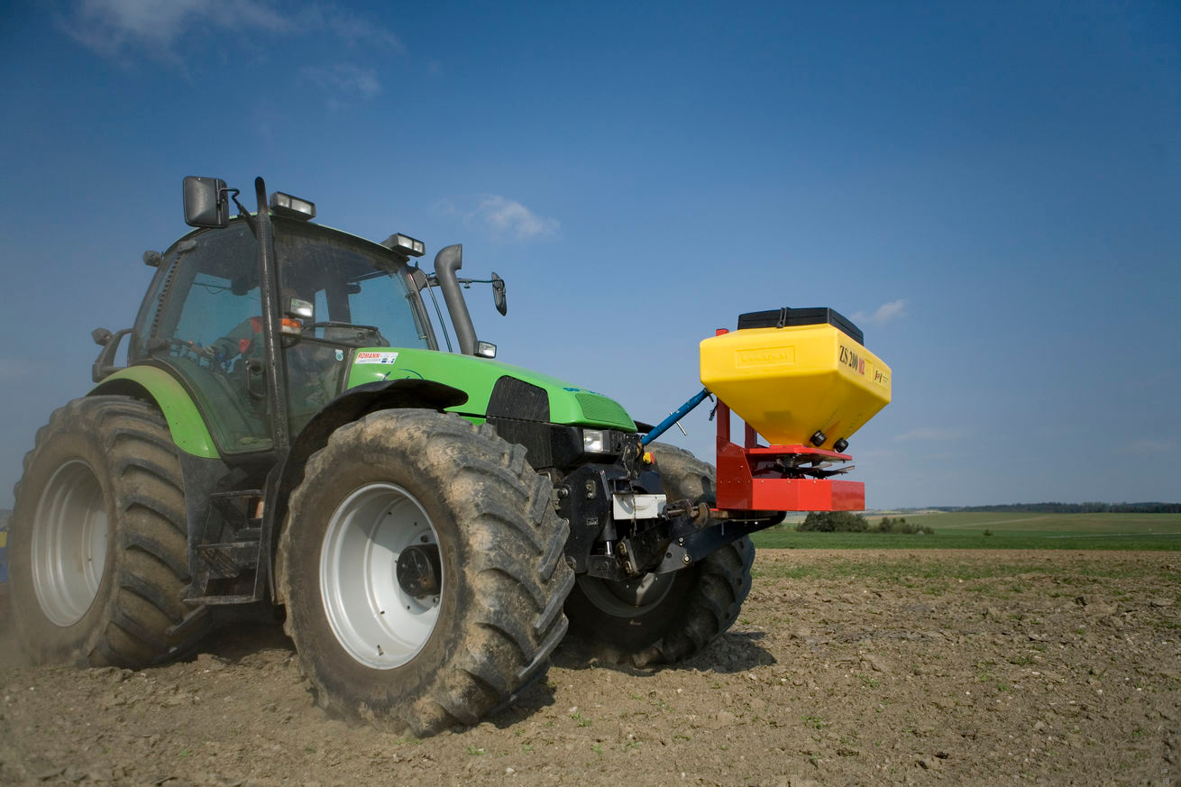 Electric twin broadcaster APV ZS 200 M2 mounted on a Deutz-Fahr Agrotron